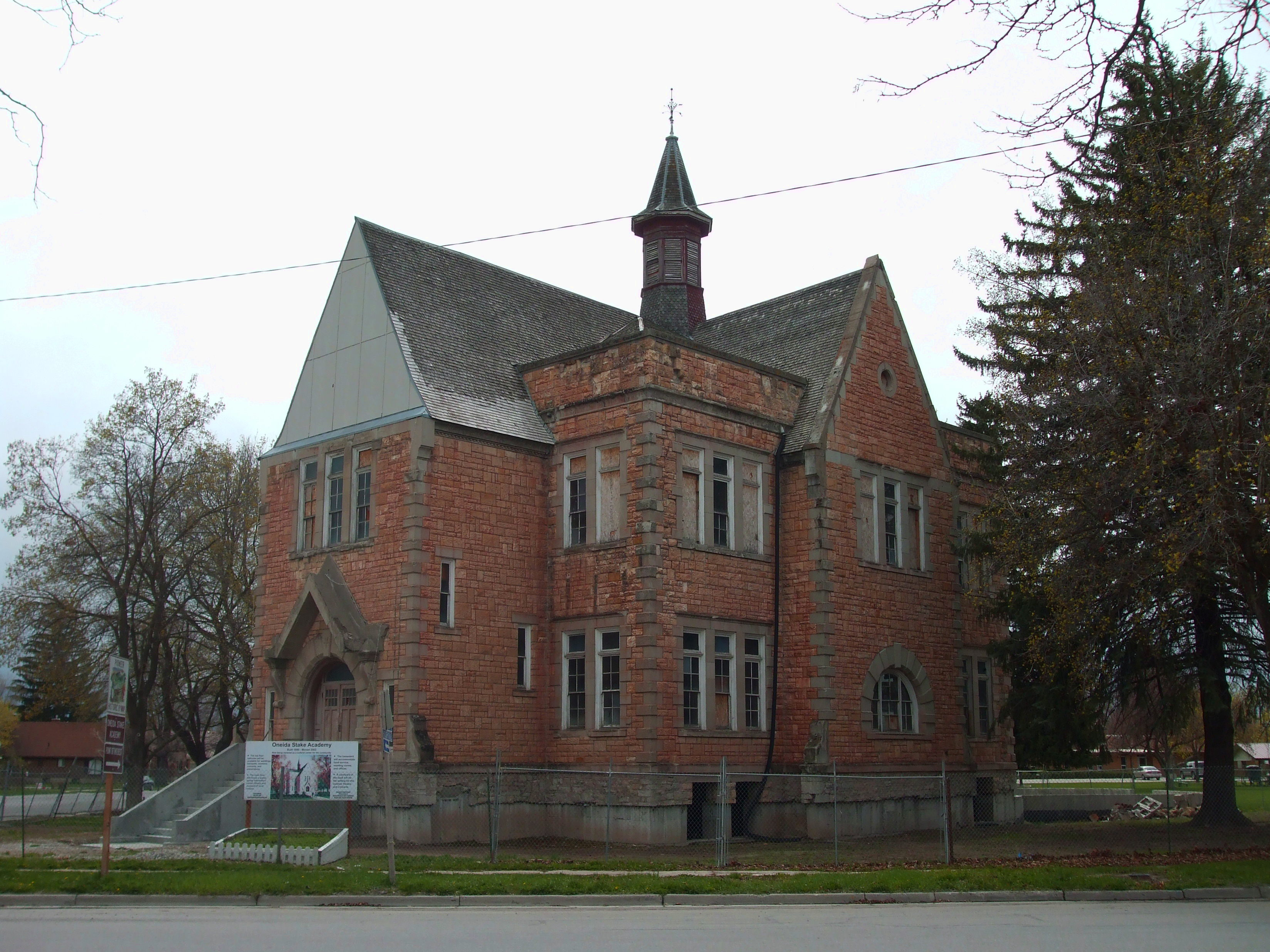 The Oneida Stake Academy, a historic former school built in 1895 in Preston, Idaho, United States.